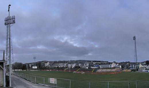 St. Helen's Rugby and Cricket Ground from South-East corner.